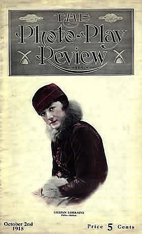 Lillian Lorraine Photoplay October 1915